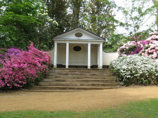 Temple in Valley Gardens